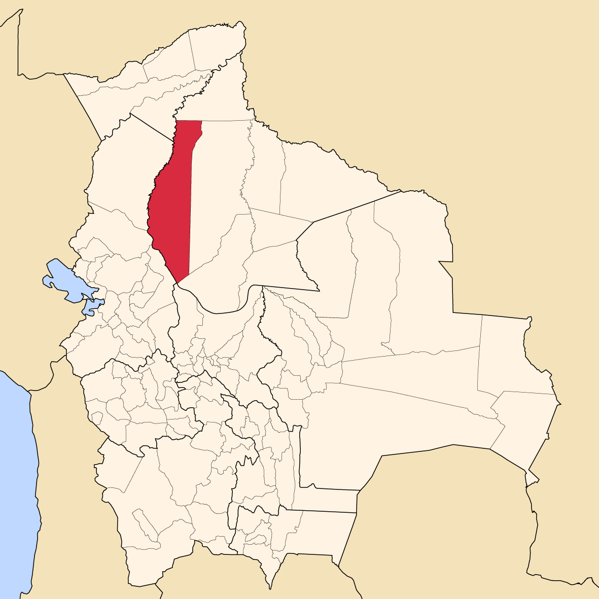 Map of Bolivia showing General José Ballivián province, Beni